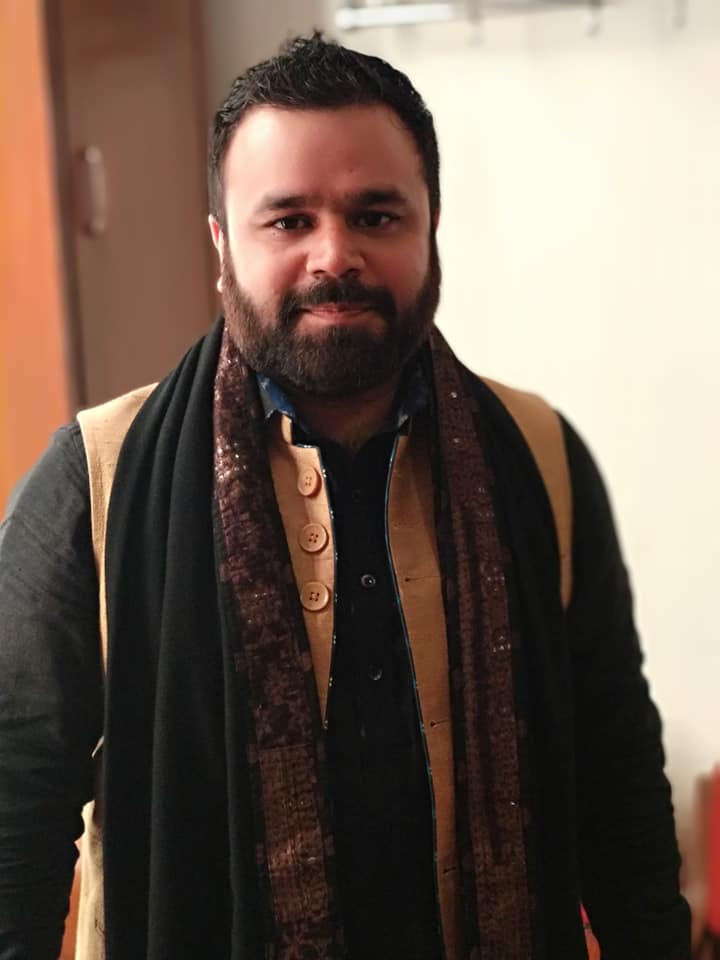 Sufi musician and composer Dhruv Sangari (Bilal Chishty Sangari) before a concert in Delhi in 2018.